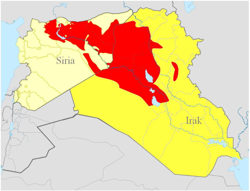 Version of File:Territorial control of the ISIS.svg